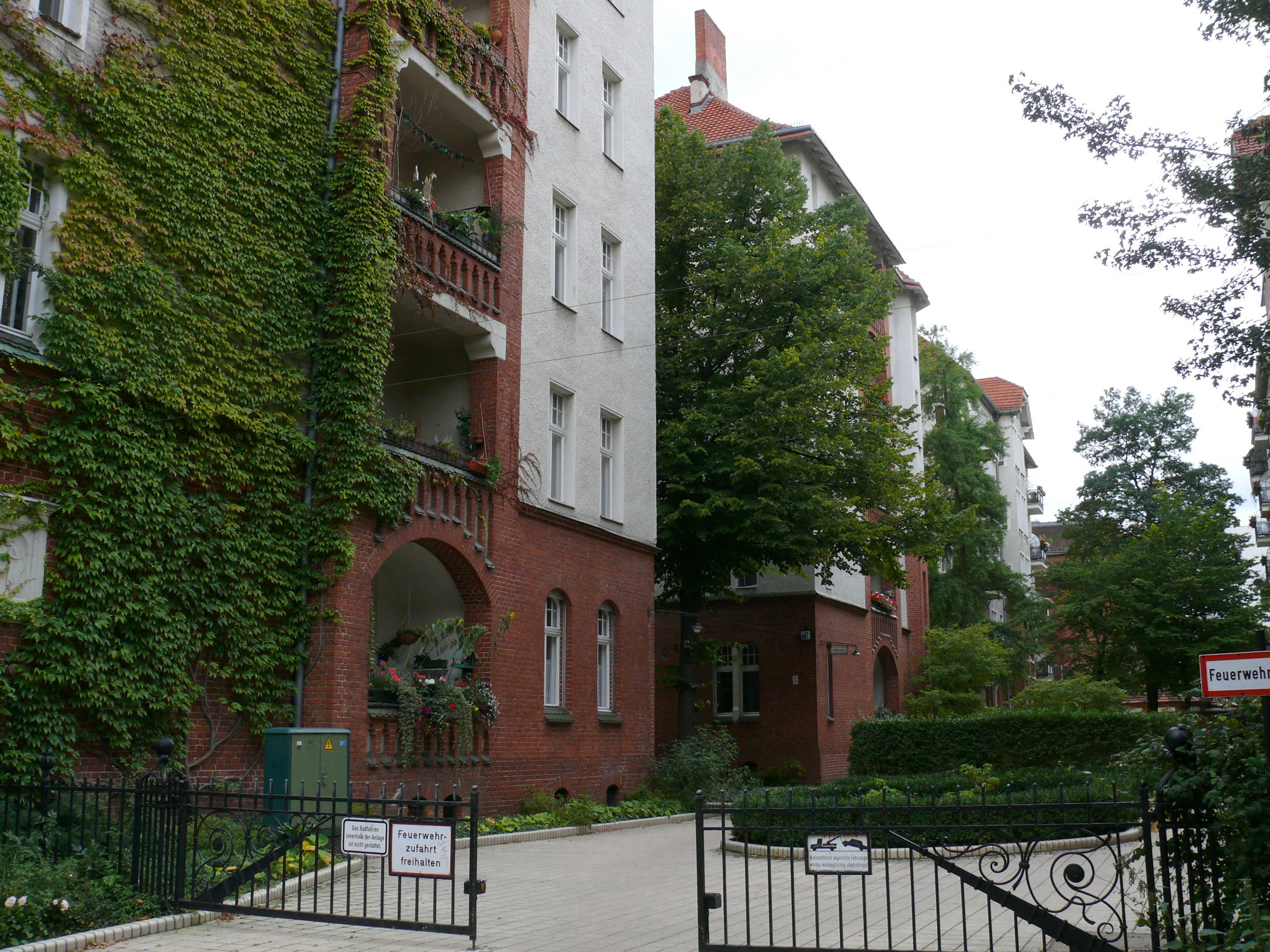 Berlin-Wilmersdorf Hildegardstraße